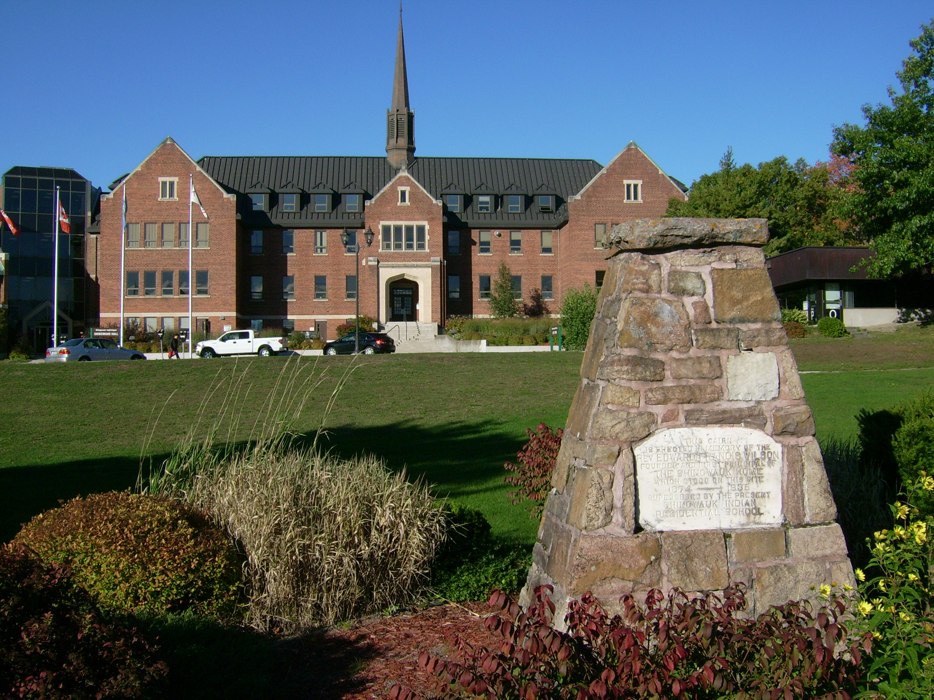 Algoma University, Sault Ste. Marie, Ontario.